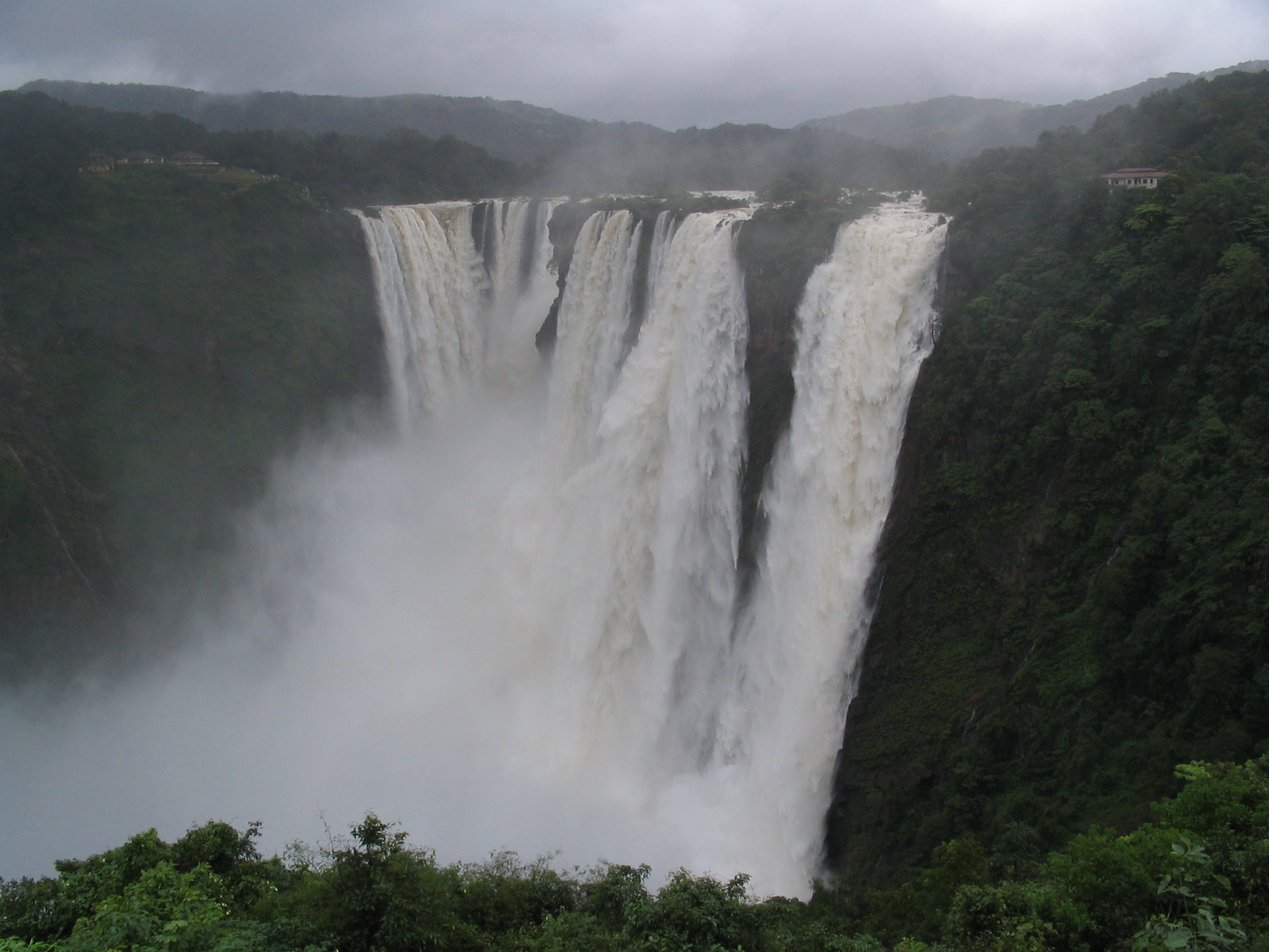 Jog Falls on August 15, 2006